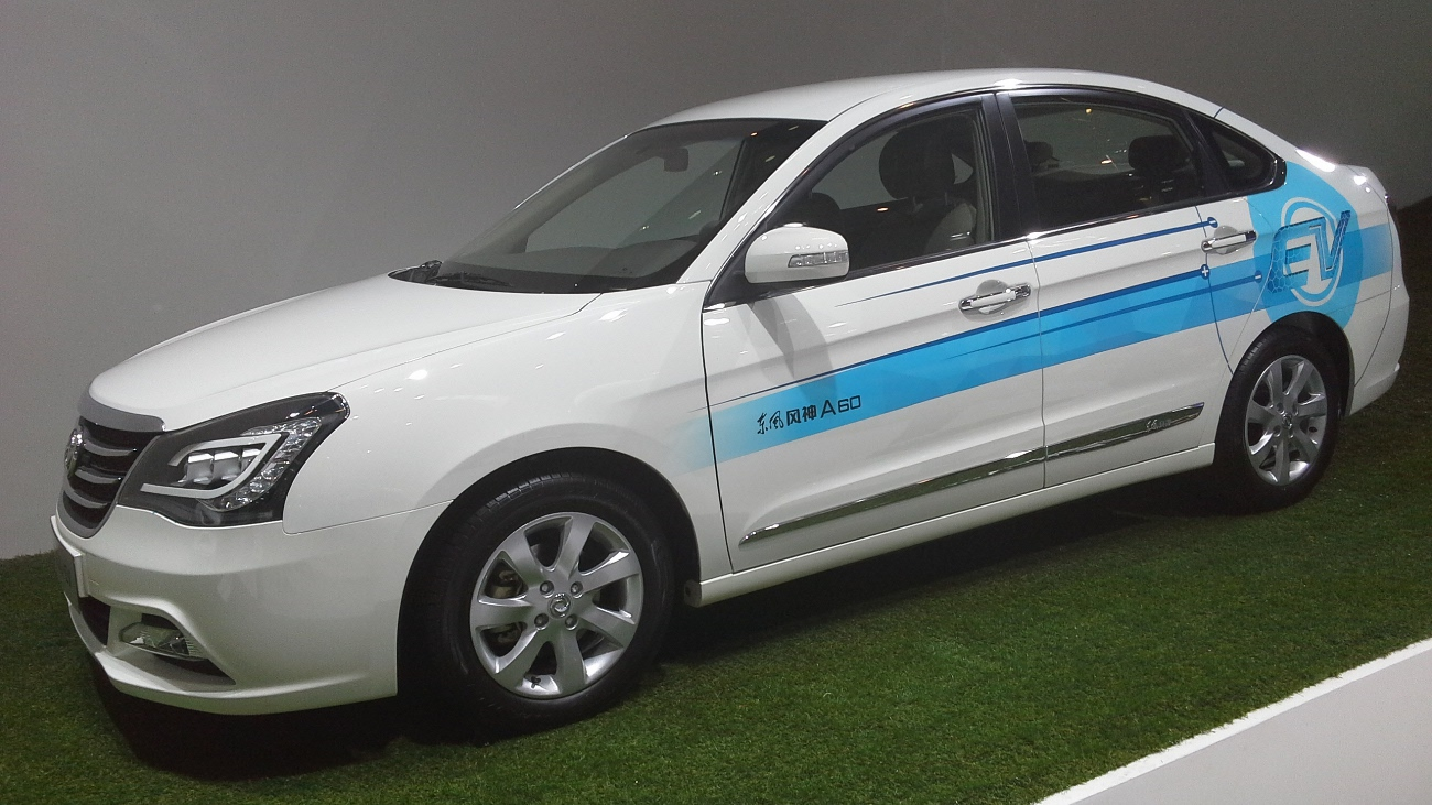 Dongfeng Fengshen A60 EV Concept photographed at the Auto China 2014, Beijing, China.